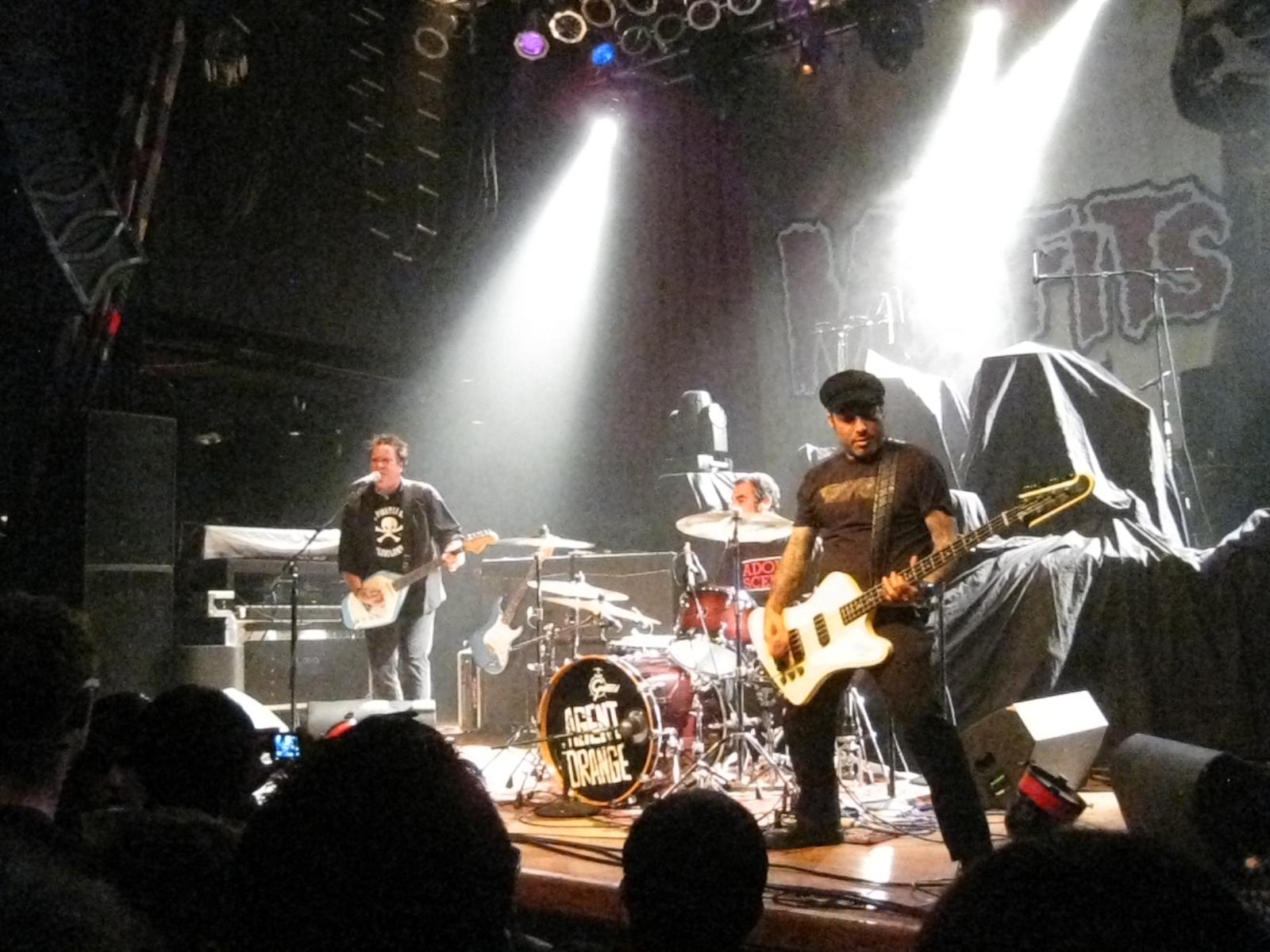 Agent Orange performing at the House of Blues in San Diego, California on October 3, 2011. Left to right: Singer/guitarist Mike Palm, drummer Dave Klein, and bassist Perry Giordano.